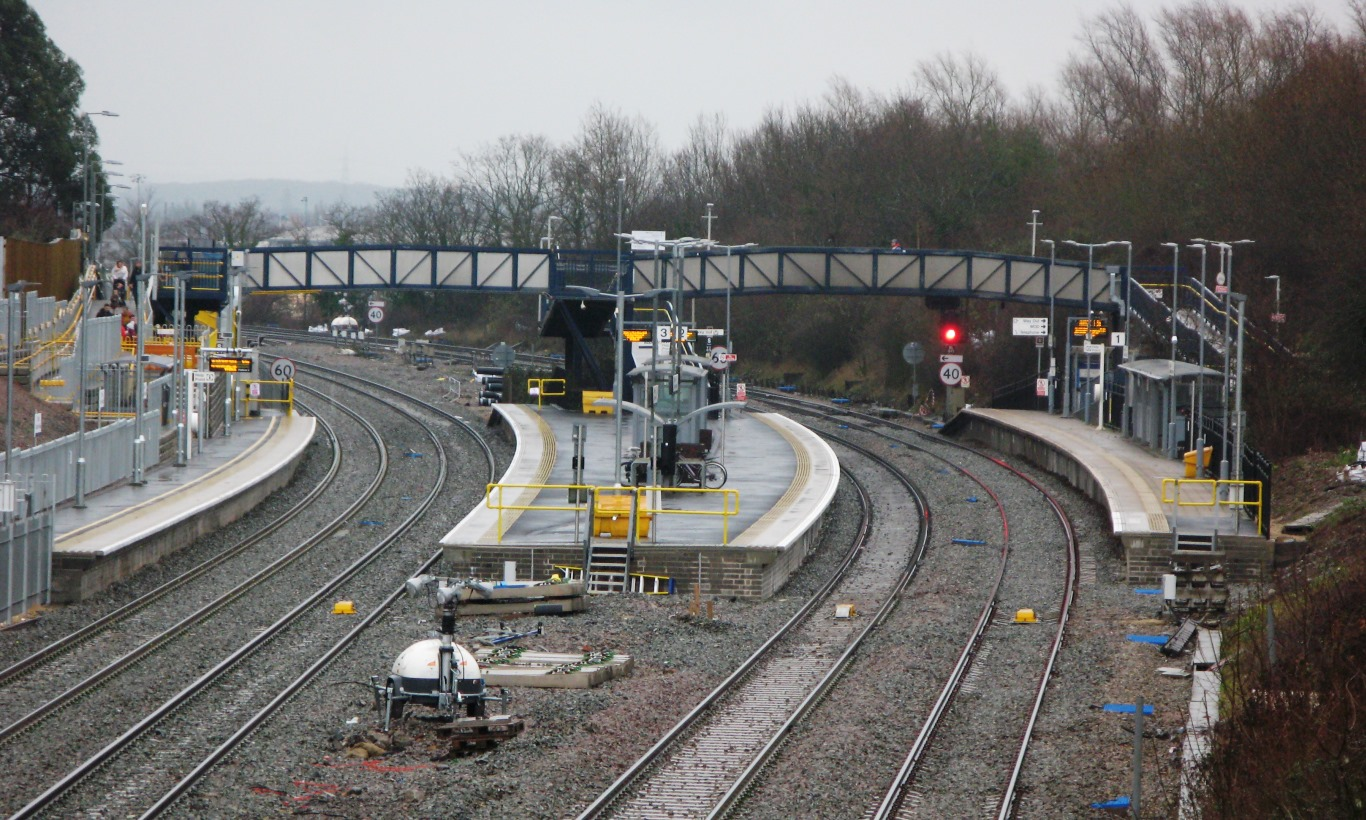 When Filton Abbey Wood station opened in 1996 there were just two tracks served by platforms 1 and two (on the right in this view). Platform 3 was opened in 2004 to allow Cardiff-bound services to call without blocking the main line to the north. 2018 saw the widening of the line souhwards to Bristol to four tracks and so a platform 4 was added (on the far left).